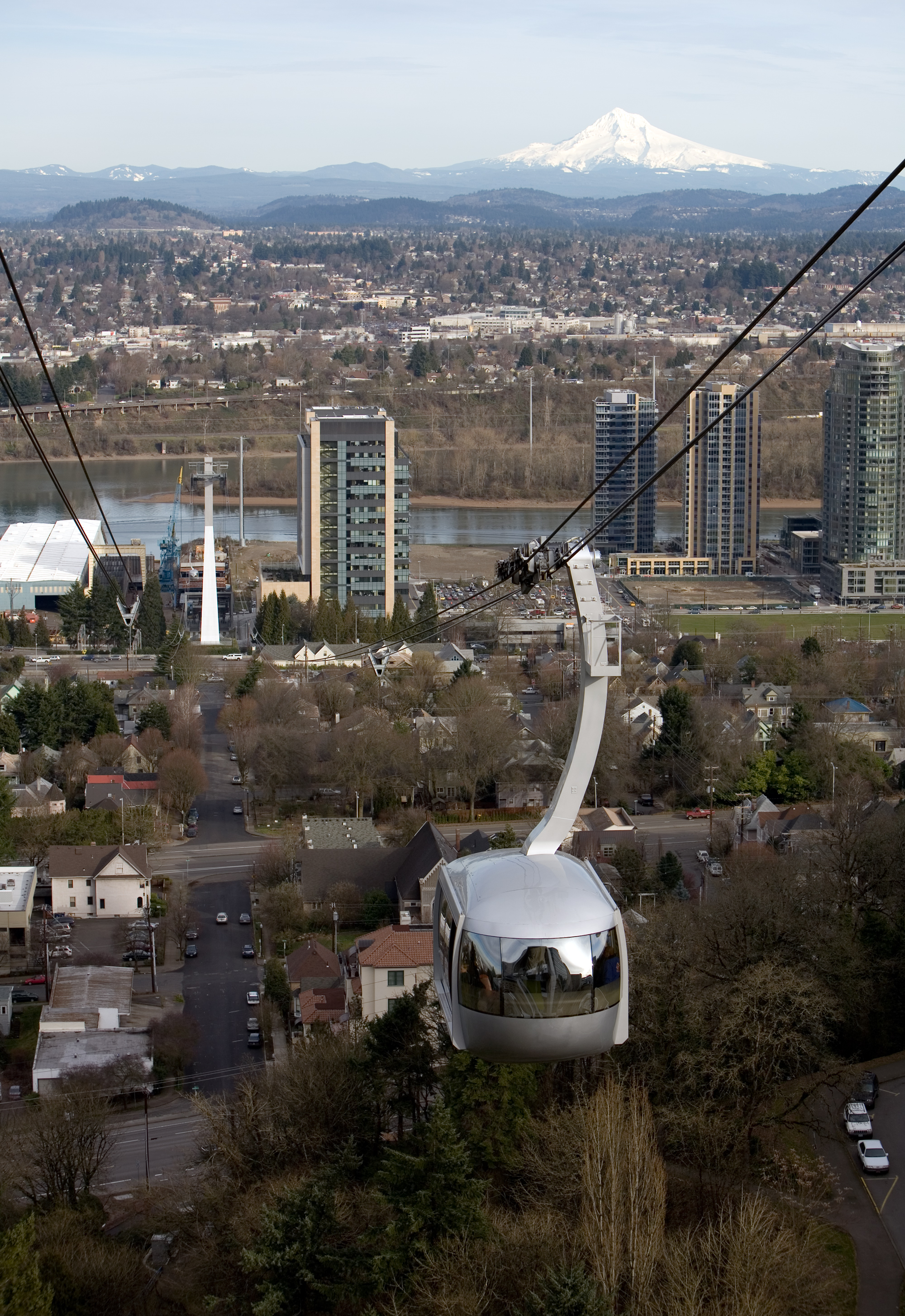 Portland Aerial Tram with Mount Hood in the distance.